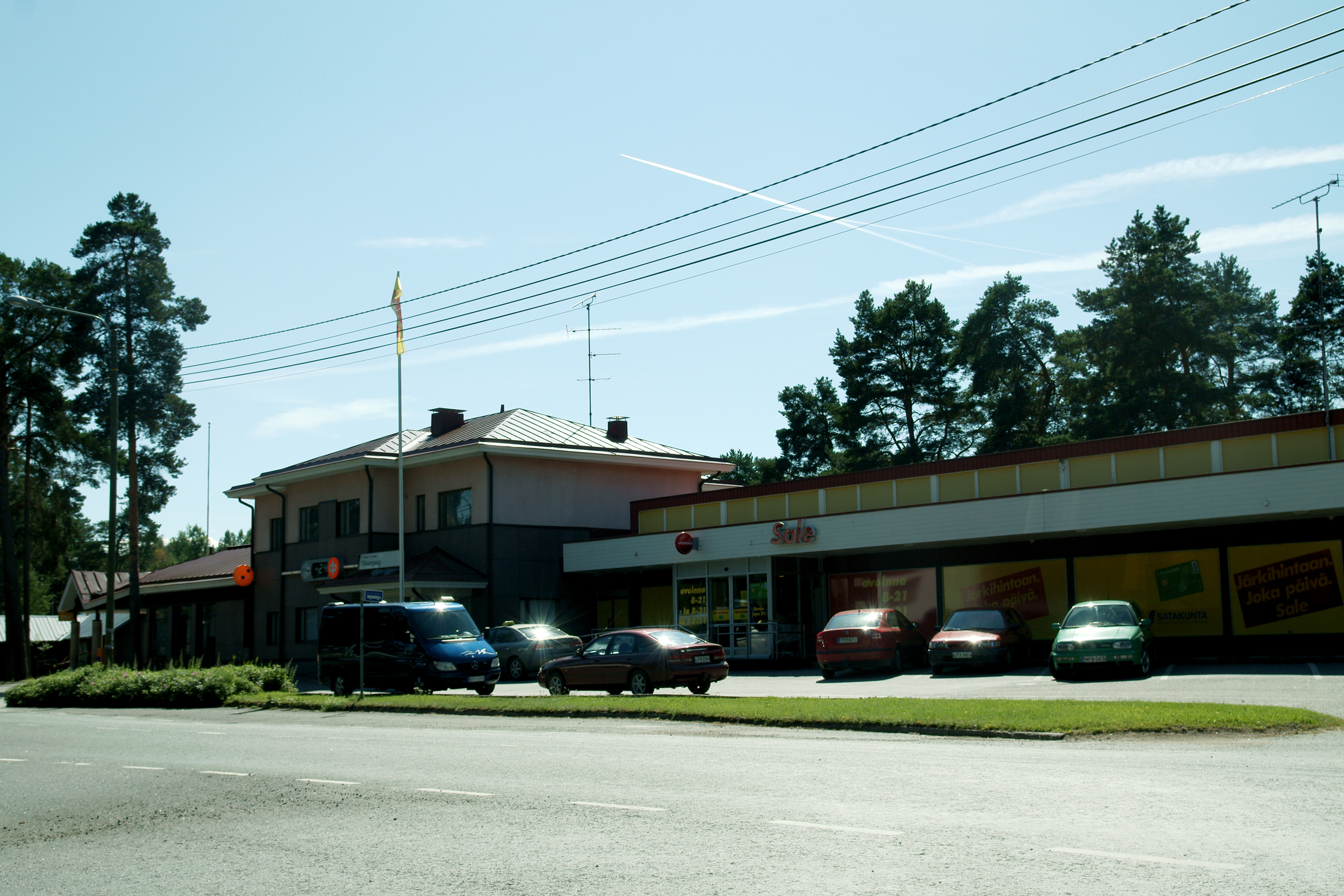 Köyliön keskustaa.